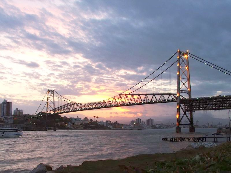 Hercílio Luz Bridge at sunset, Florianópolis, Brazil.